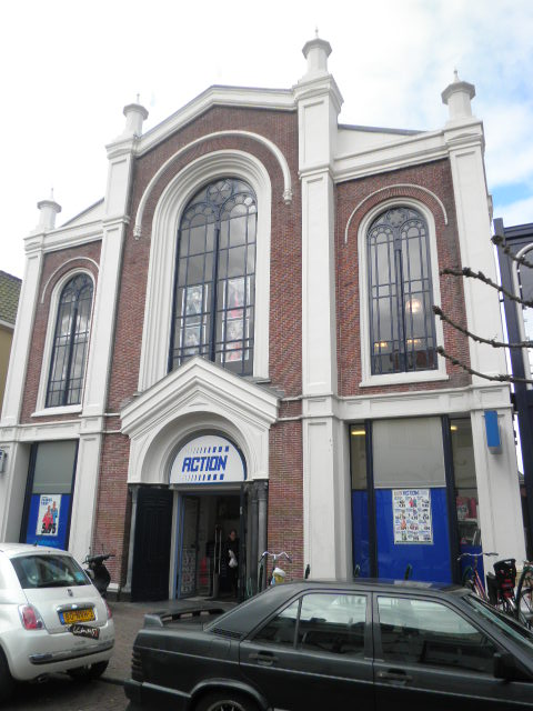 Site of shop Action in Hoorn, North Holland, the Netherlands. Building is a former church.